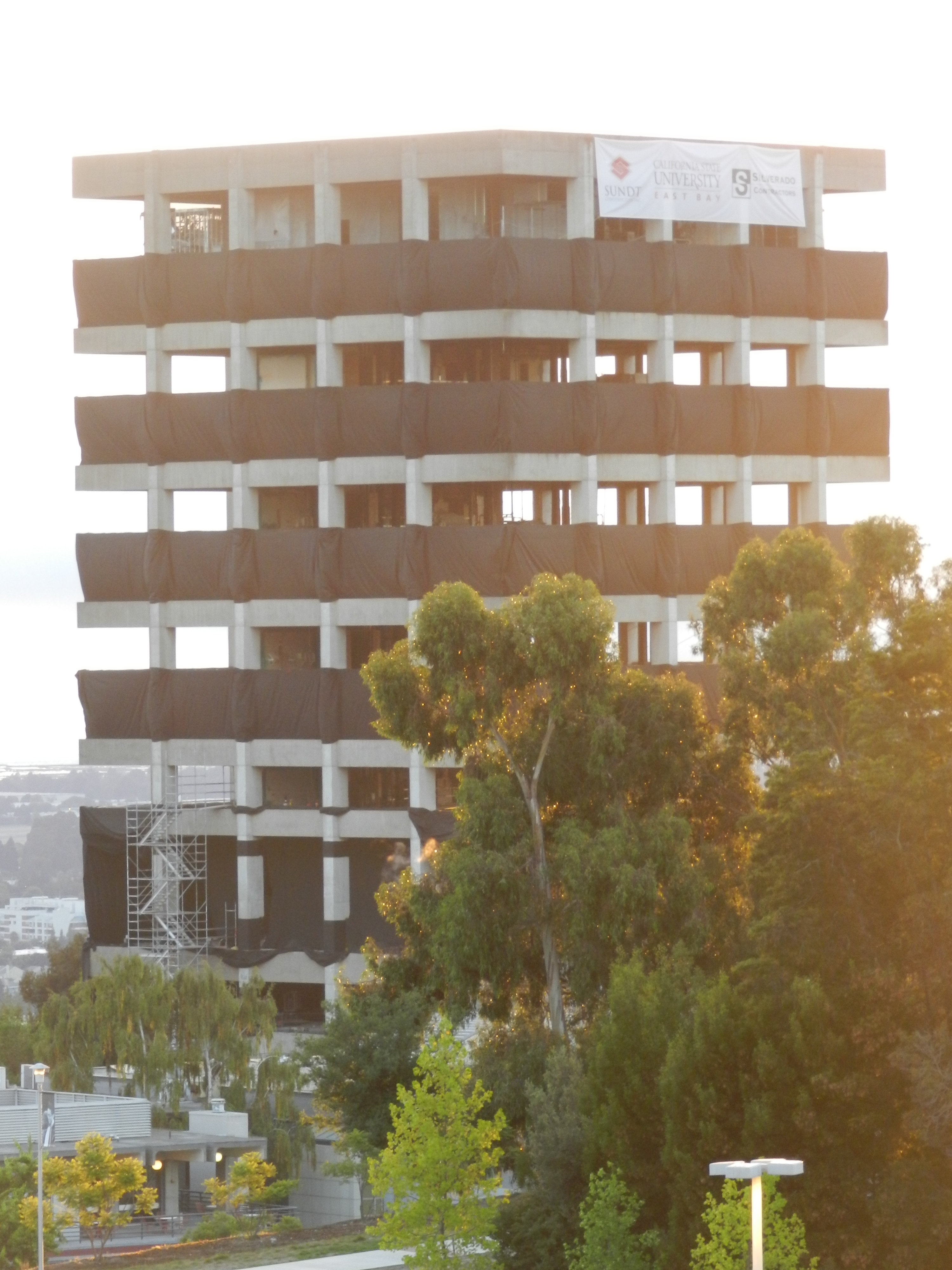 Warren Hall, at California State University East Bay (Hayward, California), skeleton framework remaining, ready for demolition in 3 days.